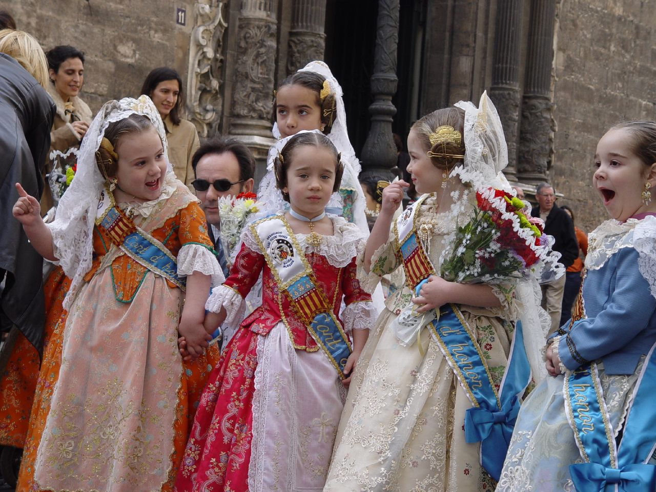 Girls in historical Valencian costumes